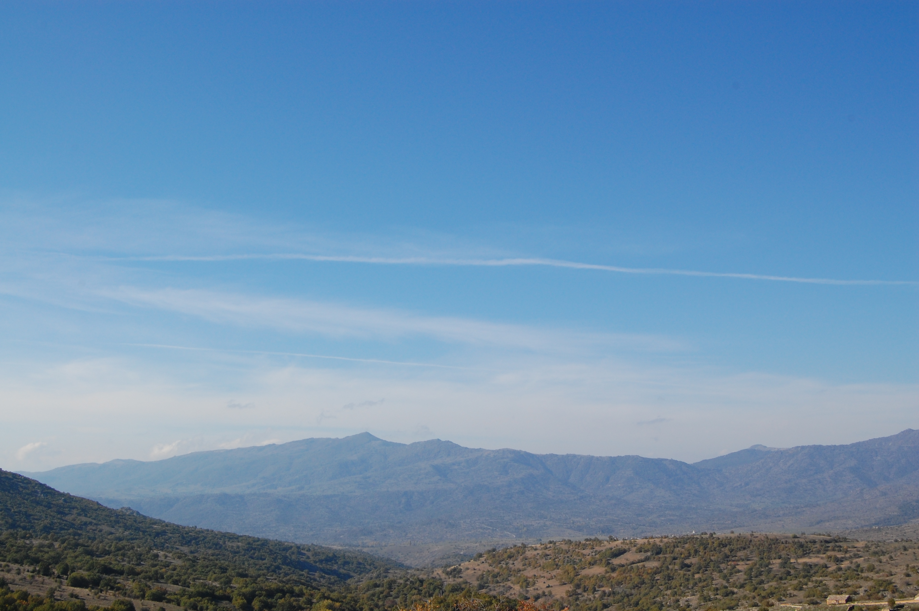 Selečka Mountaine viewed from the village of Veprčani in Mariovo region, Macedonia